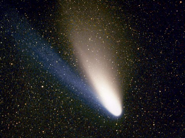 Comet Hale Bopp (USNO). Taken from Blackwater Falls State Park, Davis, WV with the USNO 20-cm (8-inch) f/1.5 Schmidt Camera. 1-minite exposure on Kodak PPF-400 color negative film. Special thanks to the Park Superintendents of the state of West Virginia for inviting me out on such a glorious night!